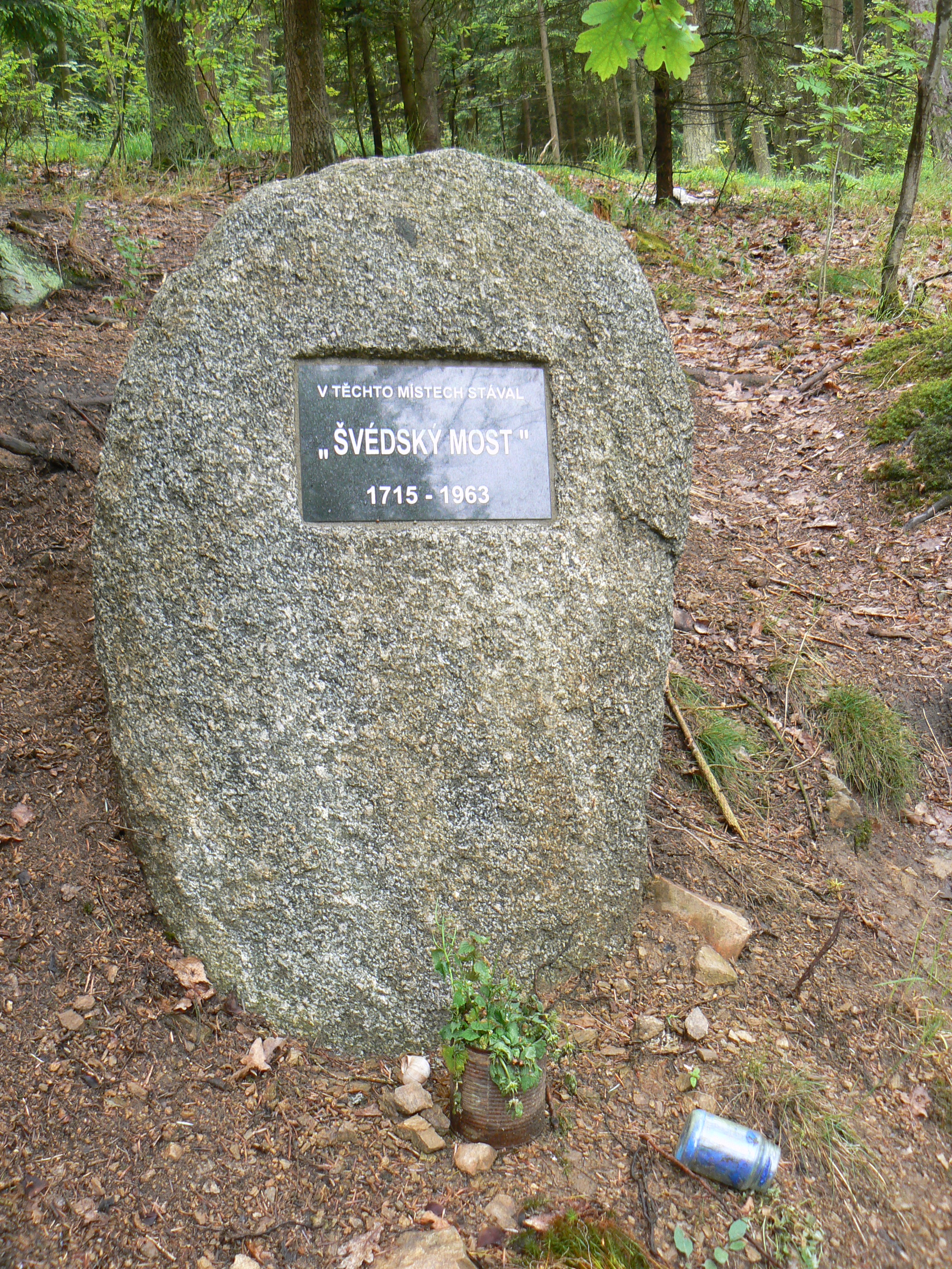 Swedish bridge memorial (Vlčava), Dobrá voda